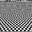 Aliased chessboard